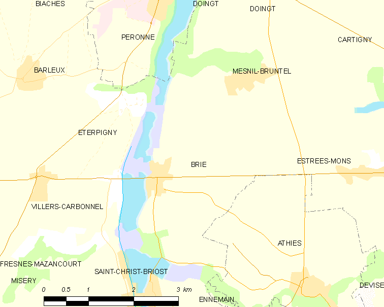 Map of French municipality Brie